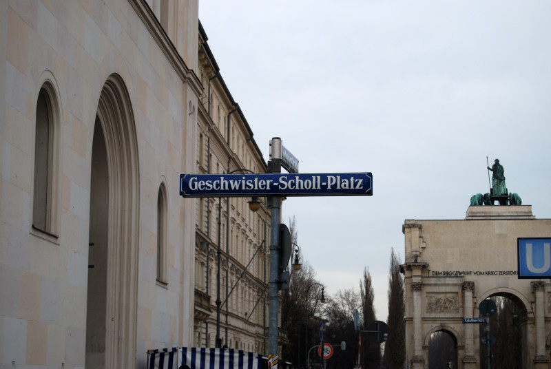 A picture of the street sign at the Geschwister-Scholl-Platz in Munich, Germany